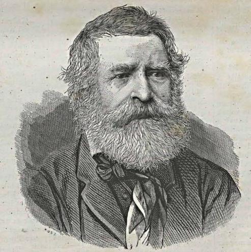 Portrait of György Telepi